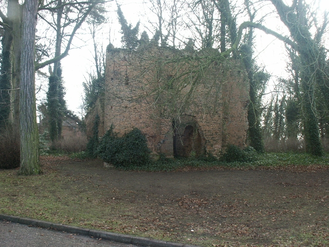 Drayton Old Lodge, Drayton. Built in 1432 by Sir John Fastolf and destroyed in 1465 by the Duke of Suffolk during the War of the Roses.